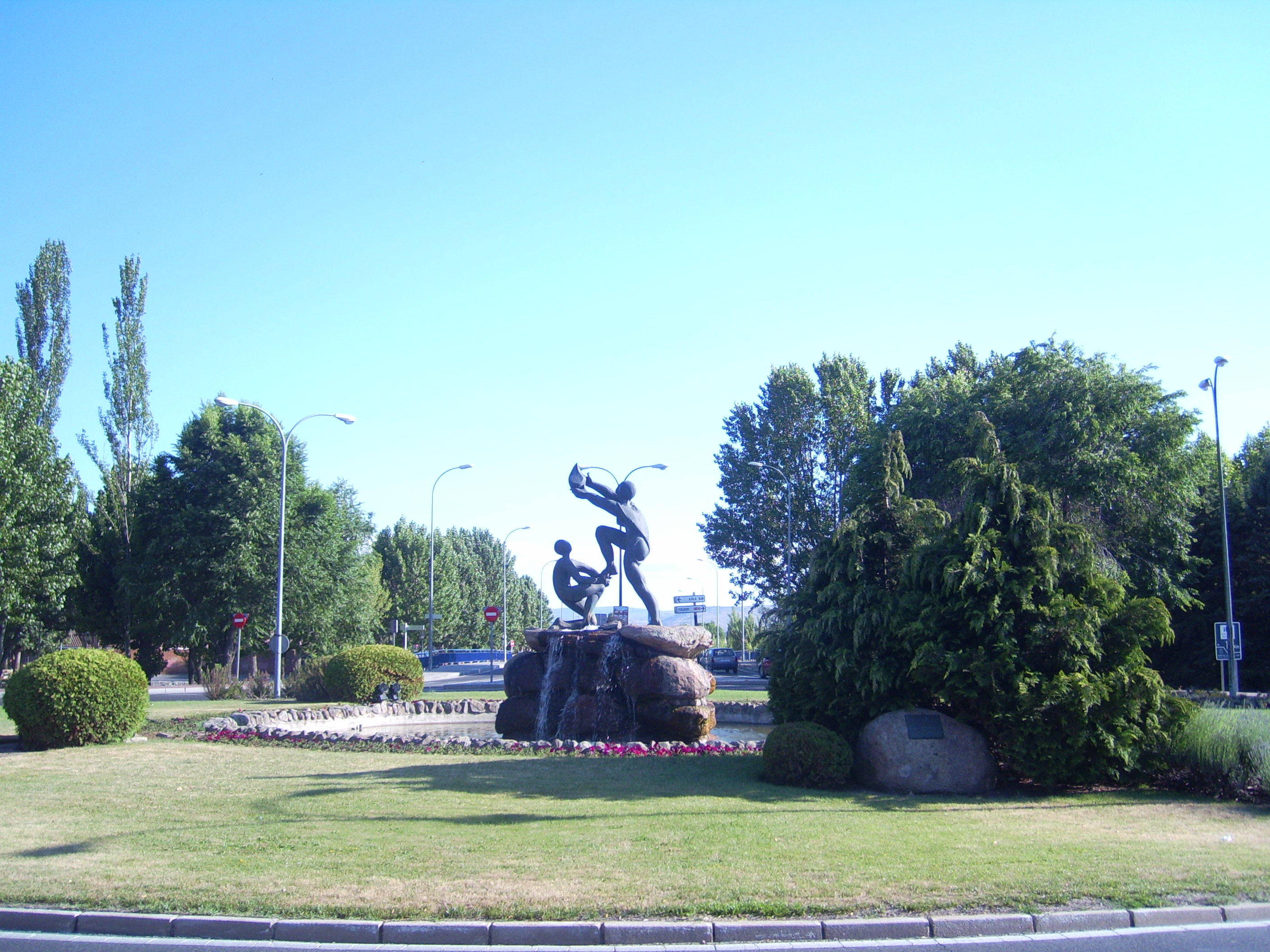 monument devoted to blood donors